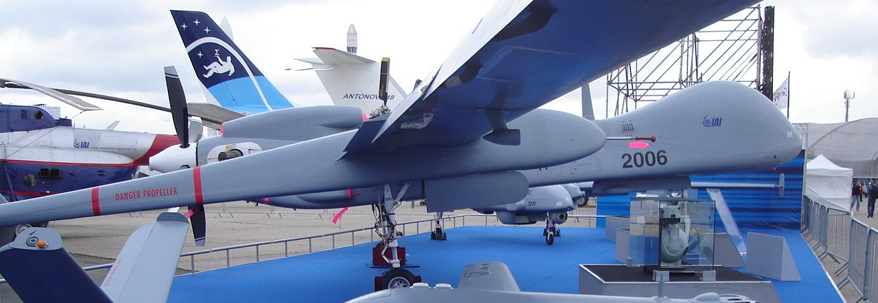 Israel Aerospace Industries Heron-TP aka Eitan at the 2007 Paris Air Show.